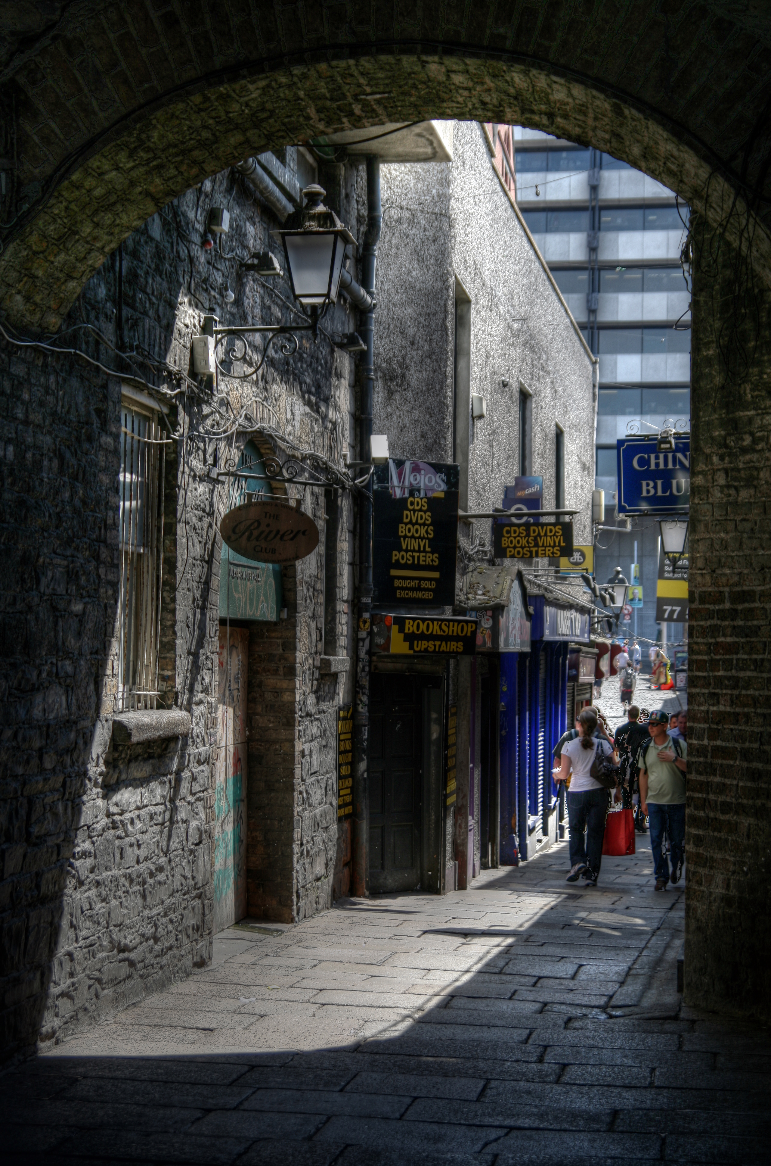 Merchants Arch, Temple Bar, Dublin